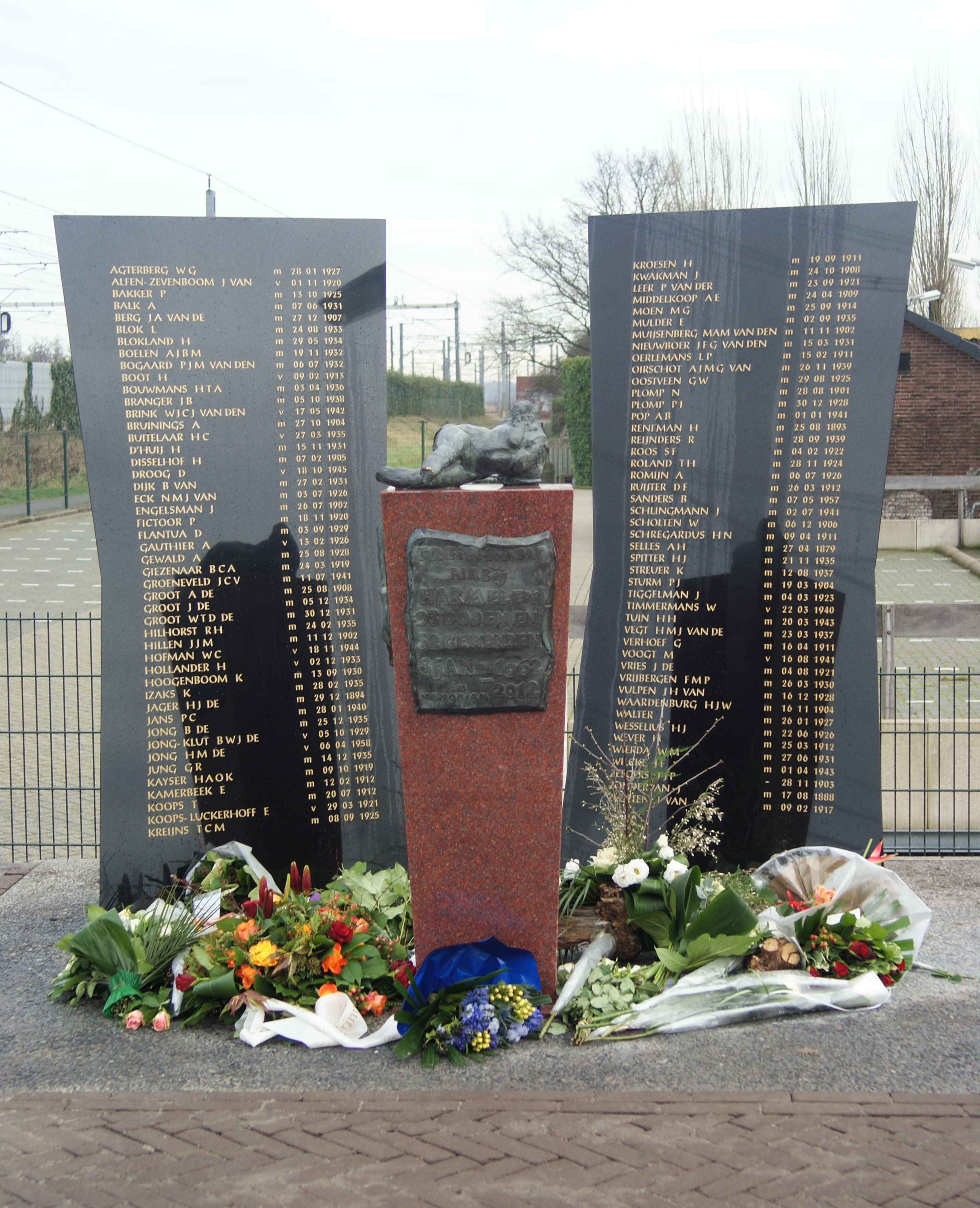 Monument for de victims of the train disaster near Harmelen, Netherlands, revealed on 8 January 2012 by Pieter van Vollenhoven, 50 years after the disaster. Monument designed by Taeke de Jong. From the Dutch Wikipedia page (translated): "The design consists of two hard stone slabs standing upright with an angle between them, which have the names of the 93 victims written on them. Between the slabs, de location of the disaster can be seen. Between de slabs is a plinth in red hard stone, on which rests a statue representing the victims." Note: There are three mistakes in de the list of names on the stone slabs are they are photographed here: Kroesen should be Kroezen, Roos should be Roes and Van de Vegt should be Van der Vegt."